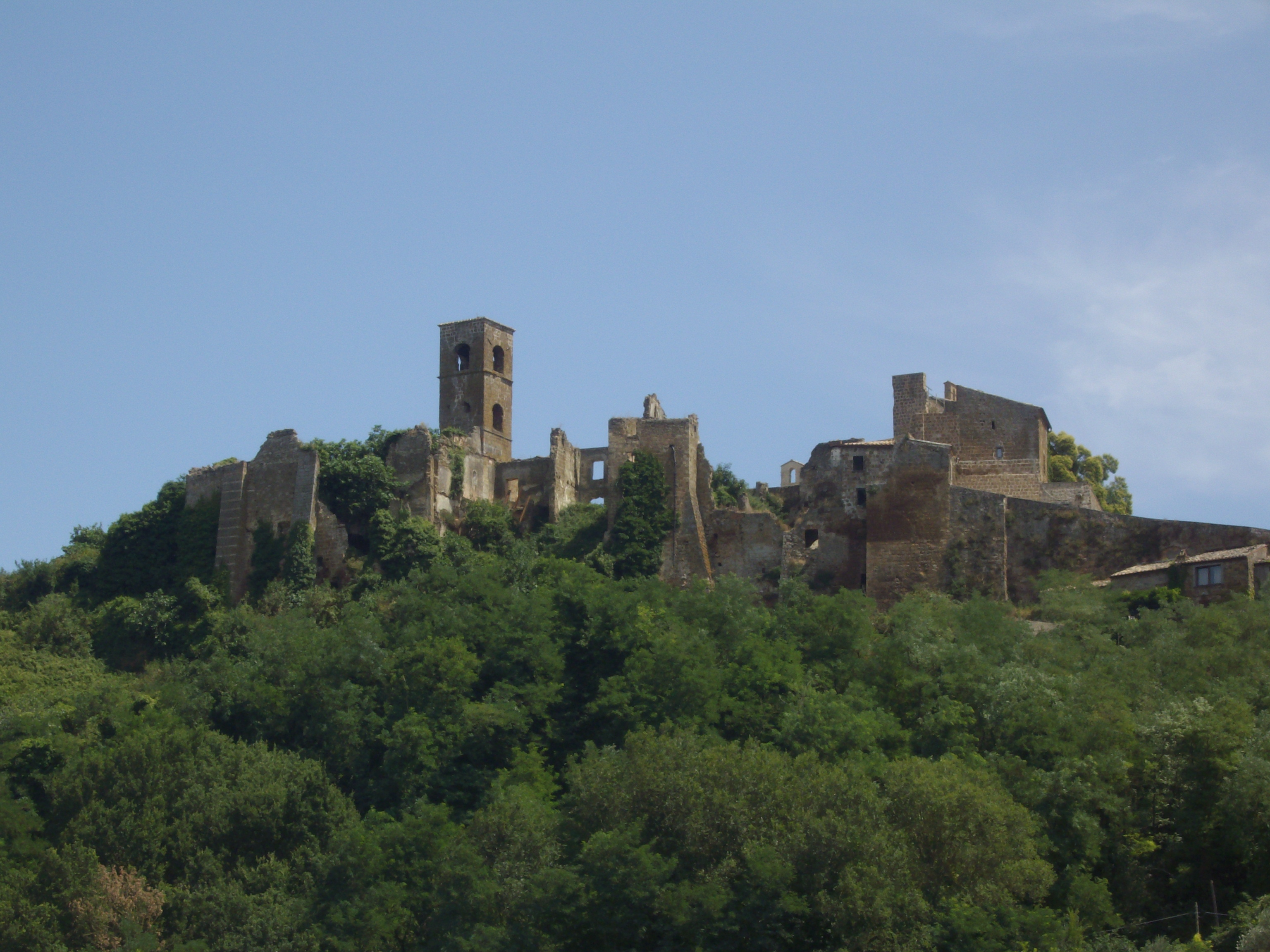 Celleno Castle